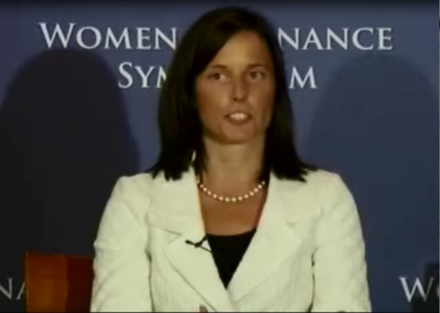 Adena Friedman, managing director and CFO of The Carlyle Group, at the U.S. Department of the Treasury convened Women in Finance Symposium, July 12, 2011.